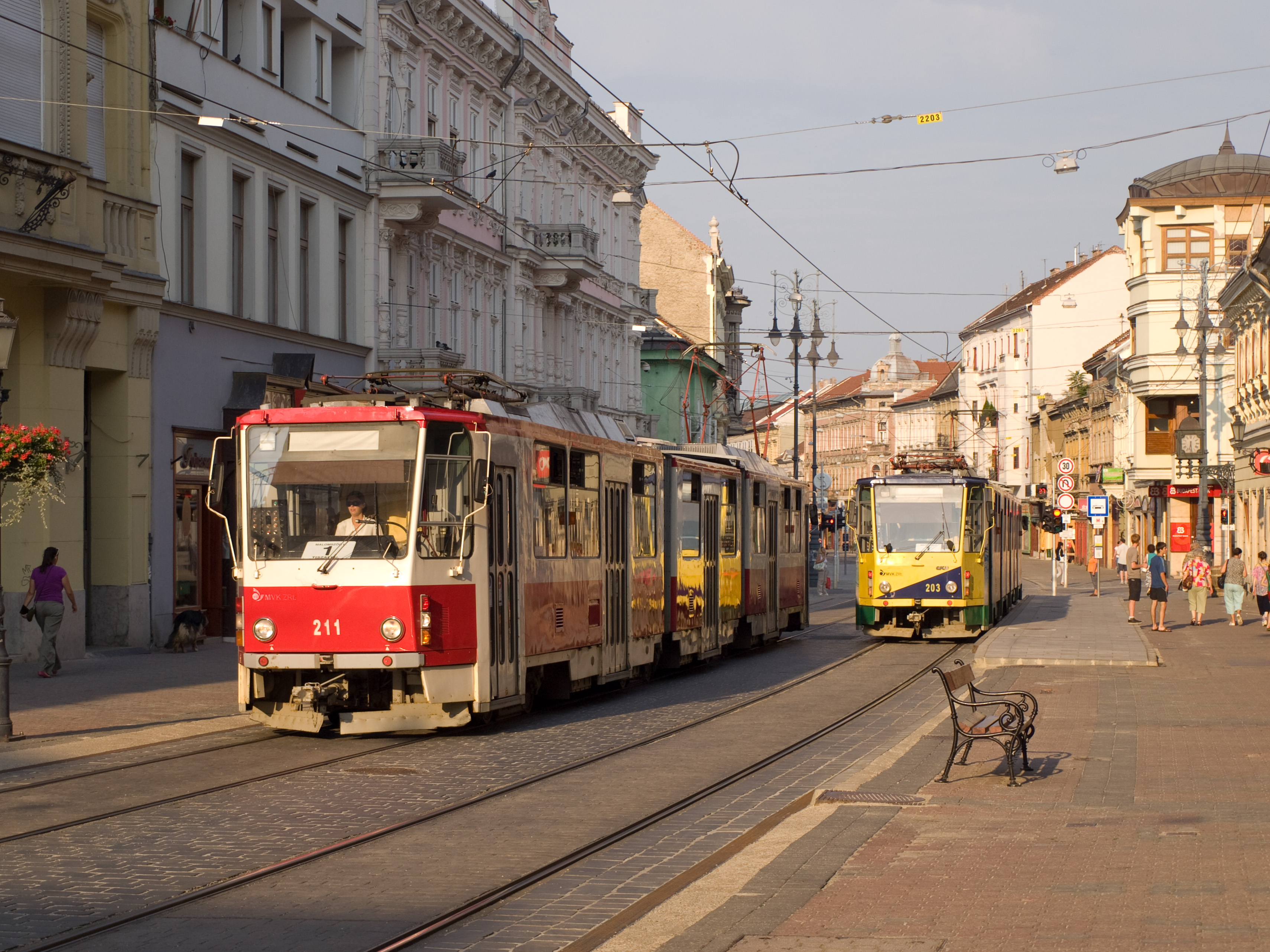 Tatra KT8D5, Széchenyi István street, Miskolc